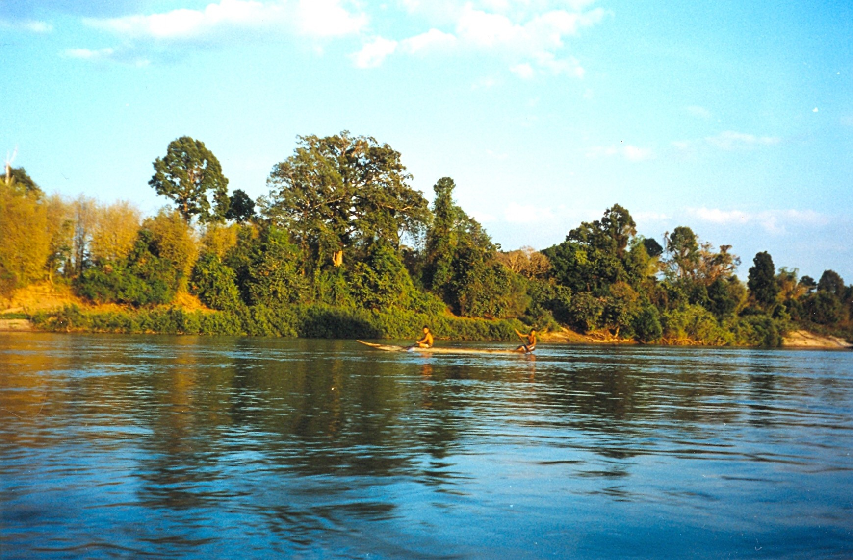 Mekong River, southern Laos.